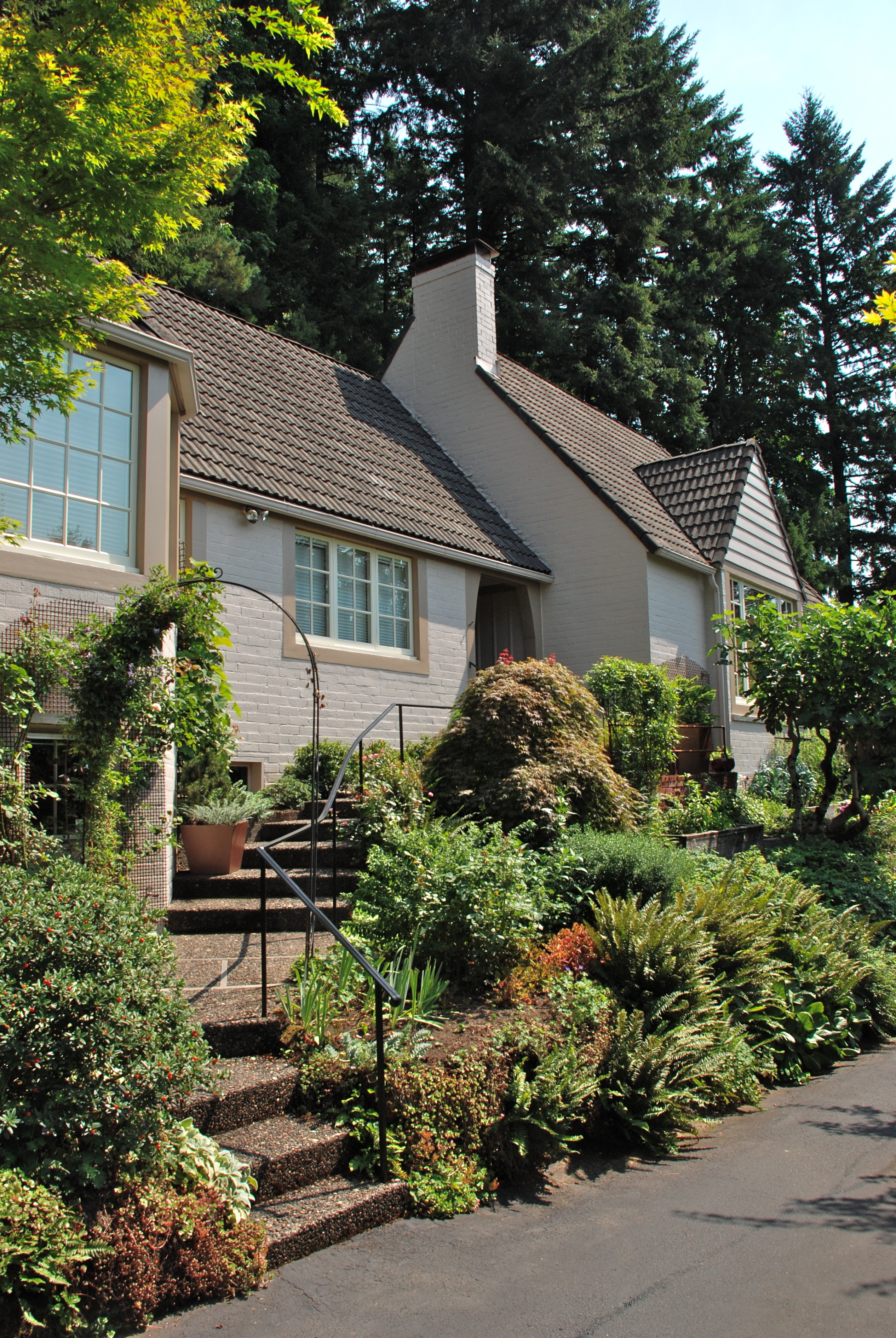 The E. J. O'Donnell House (built in 1940), at 5535 SW Hewett Boulevard, just outside Portland, Oregon, is listed on the U.S. National Register of Historic Places. More images